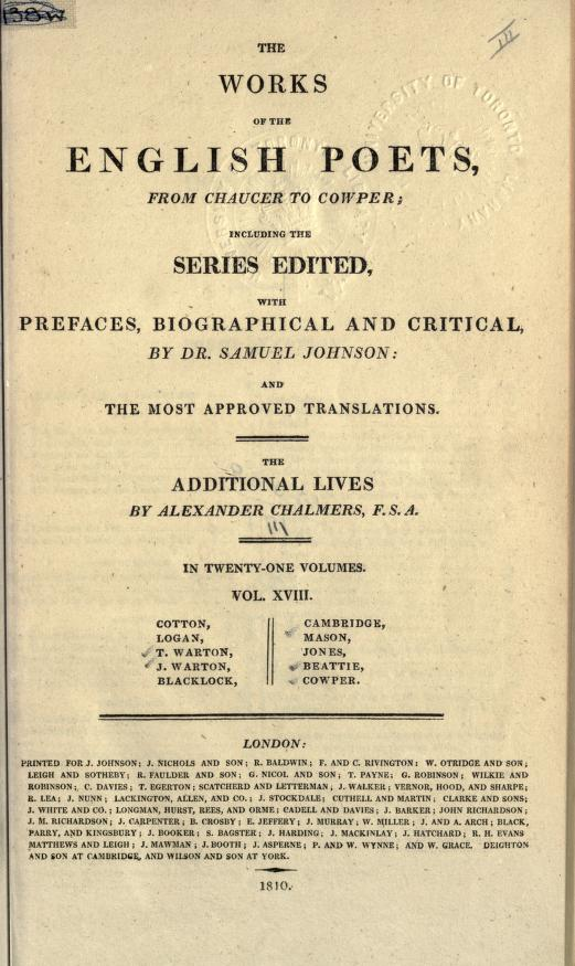 title page of v. 18 of Chalmer's Works of th English Poets